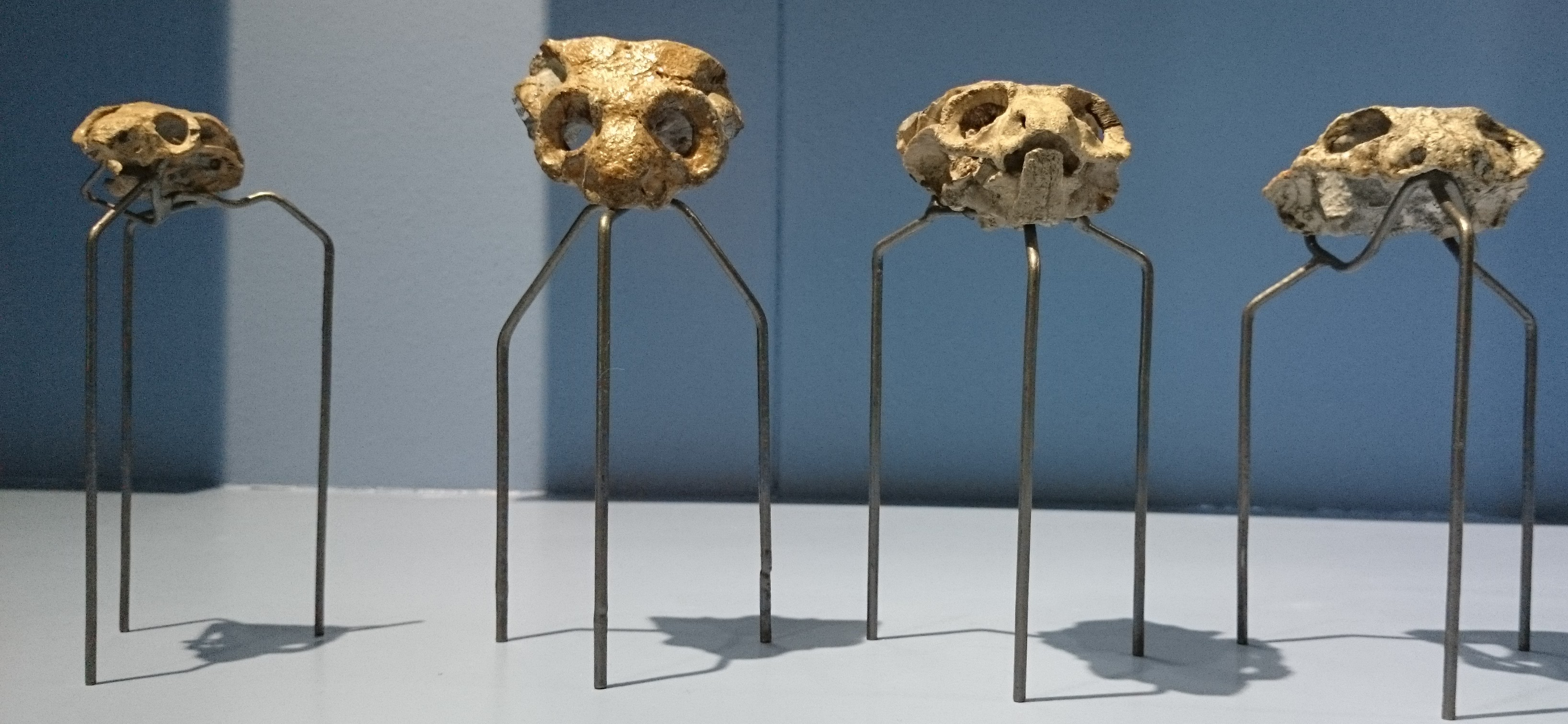 Cistecephalus microrhinus specimen